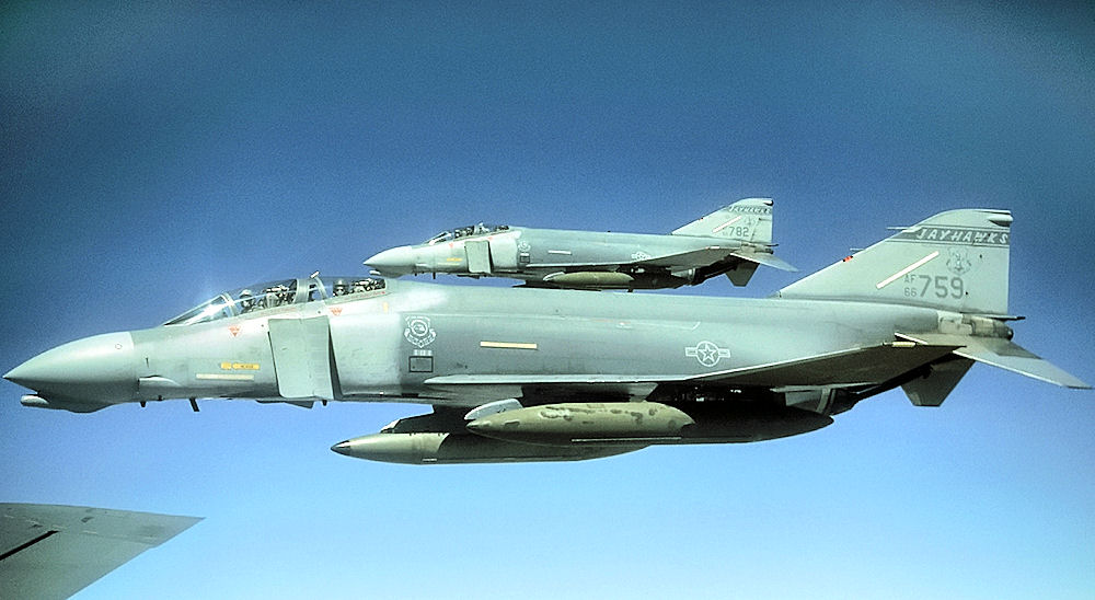 184th Tactical Fighter Group - Flight of 2 F-4D Phantom IIs. Aircraft identified as McDonnell F-4D-28-MC Phantom 65-0759 and McDonnell F-4D-29-MC Phantom 65-0782 759 was retired to AMARC as FP0419 Jan 10, 1990. Still on AMARC inventory Jan 15, 2008 782 was retired to AMARC as FP0471 Apr 2, 1990. Sold to Fritz Enterprises Jun 1, 1999 for scrapping.